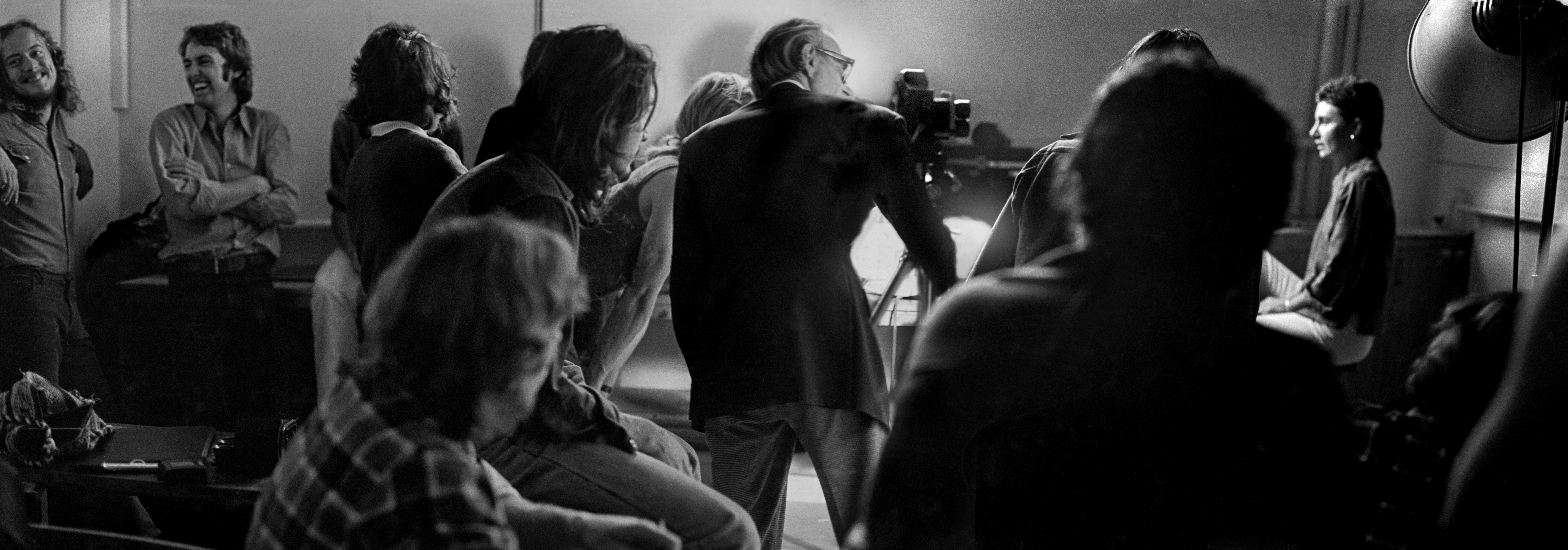 Athol Shmith demonstrating lighting technique in a classroom at Prahran College of Advanced Education in 1975